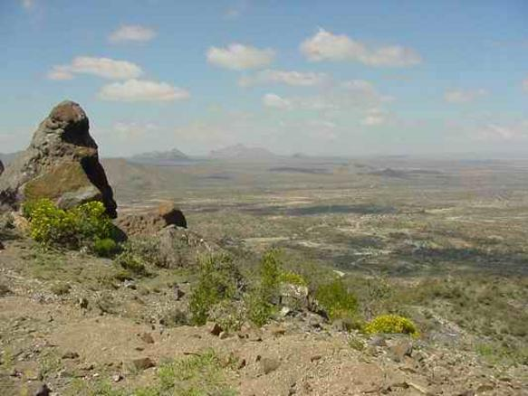 The countryside between Berbera and Sheikh, Somaliland.